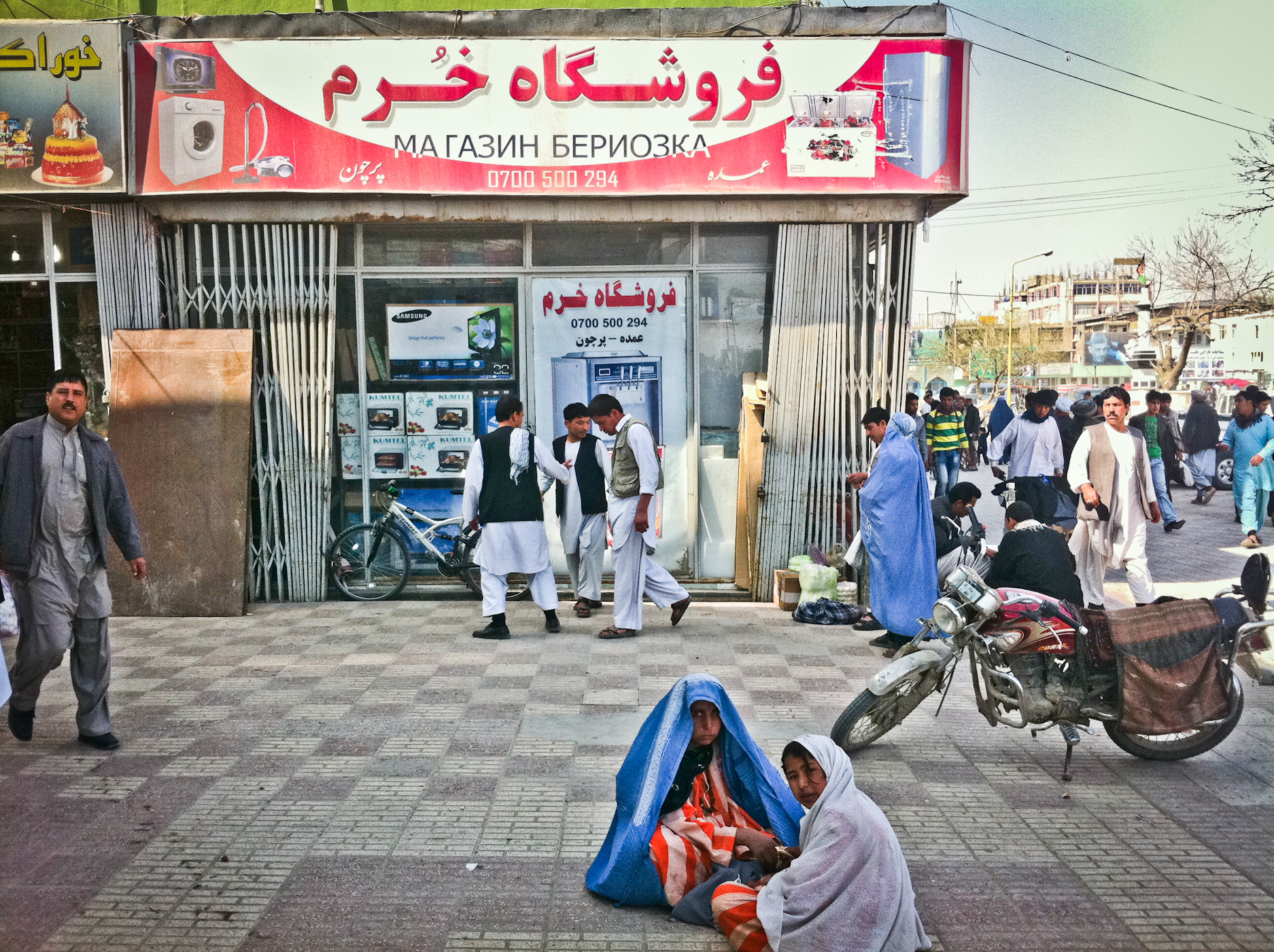 Store in Afghanistan with Russian name in cyrillic